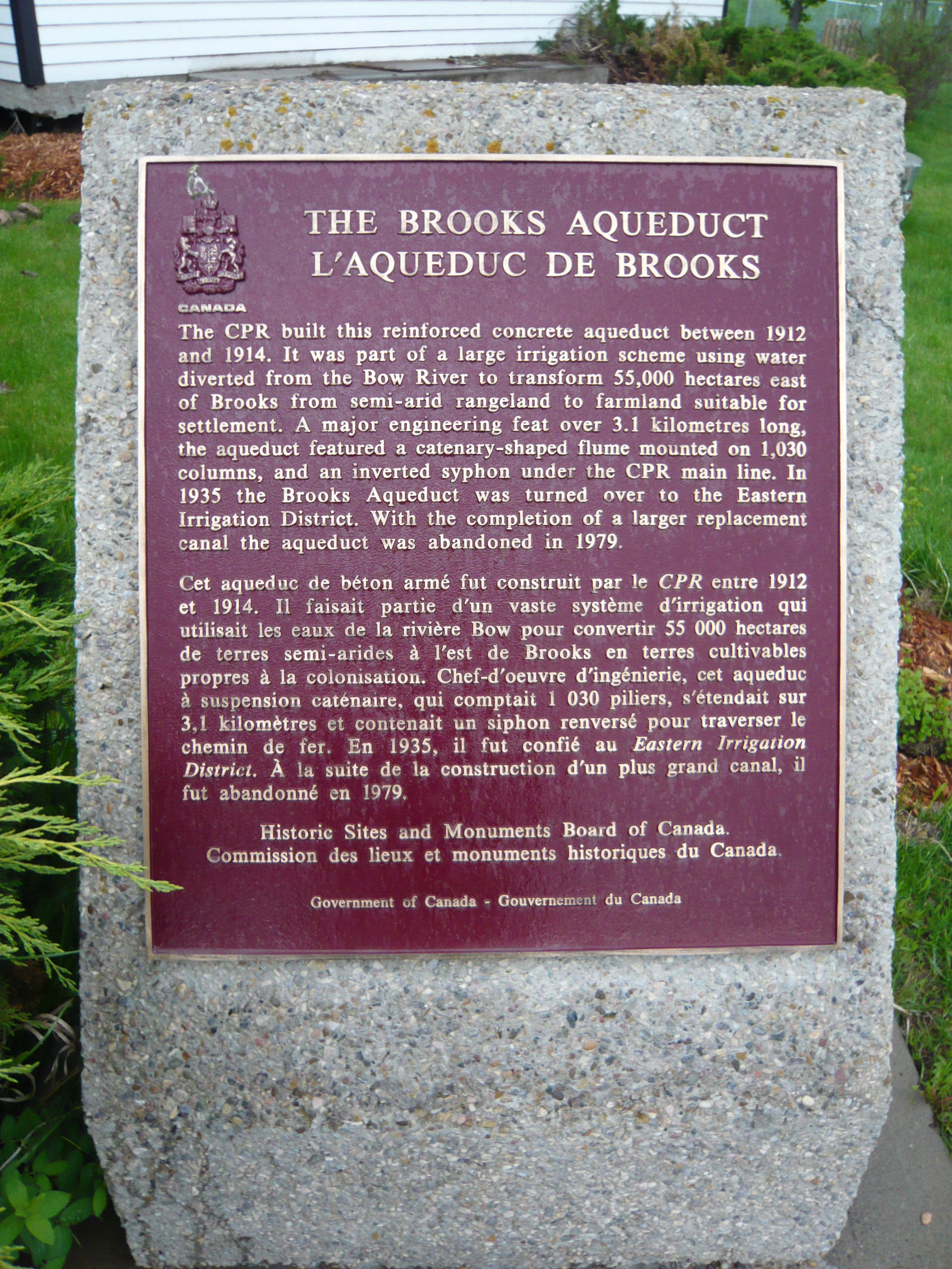 A photo of the plaque marking Brooks Aqueduct National Historic Site of Canada